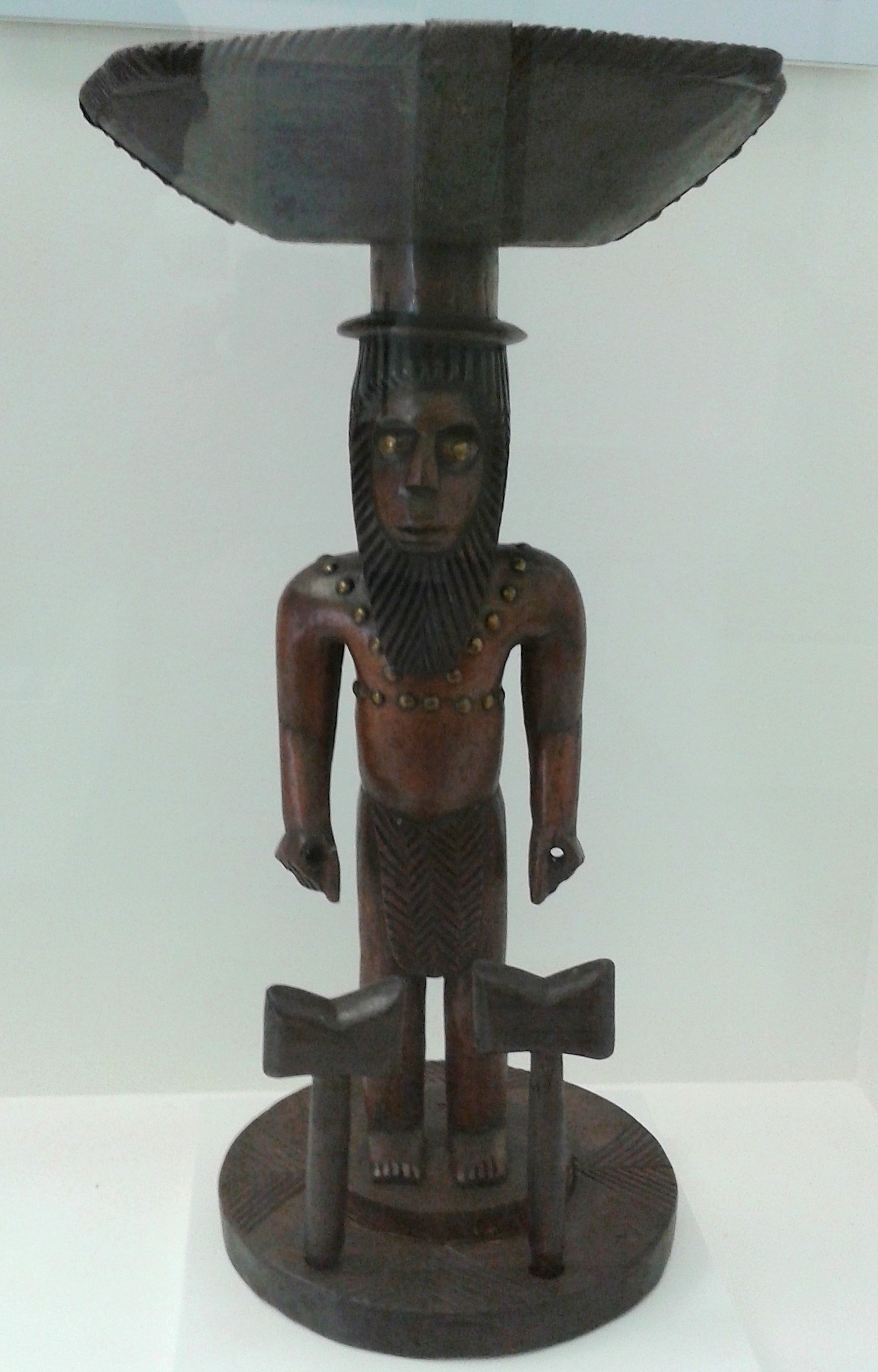 Representation of Shango. Collection of African and Afro-Brazilian ethnography of the National Museum of Brazil, Rio de Janeiro.